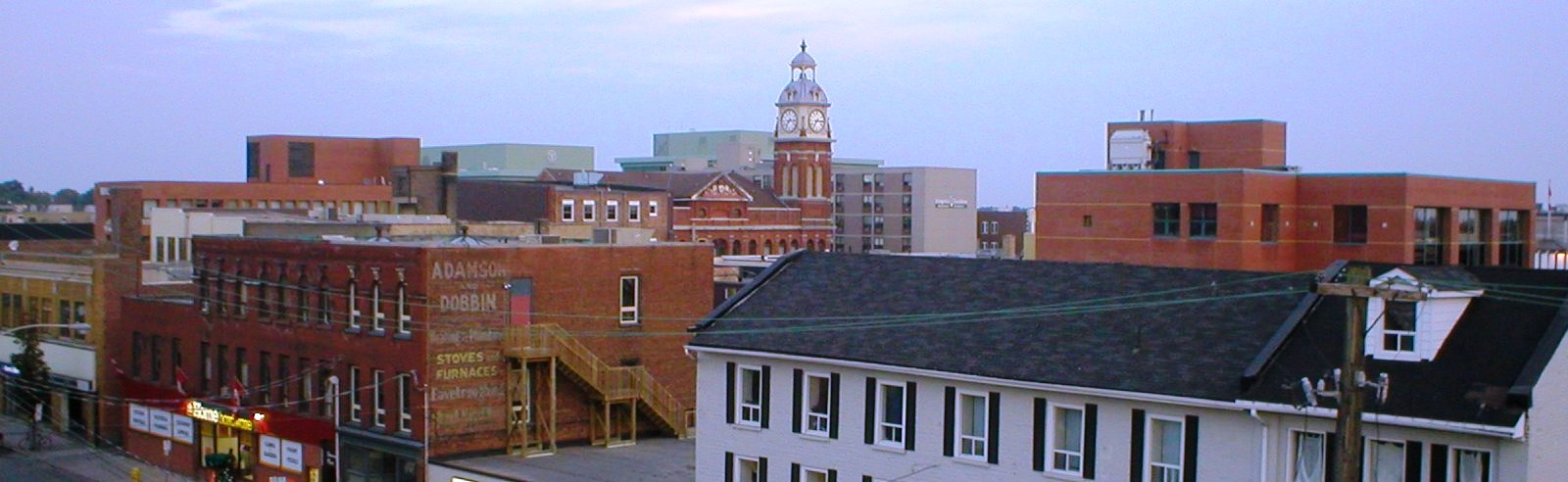 The skyline of Peterborough, Ontario, Canada, photographed from the roof of the parking structure above the Peterborough Bus Terminal and centered on the clock tower of Market Hall.